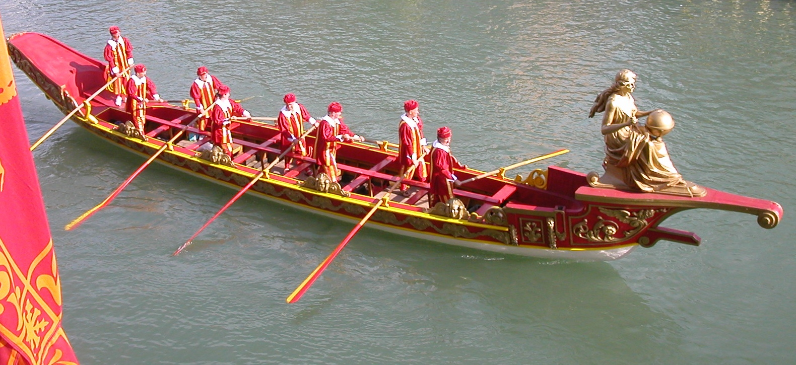 The 2008 edition of the Regata Storica di Venezia, in Venice (Italy), being a regatta in historical costumes.